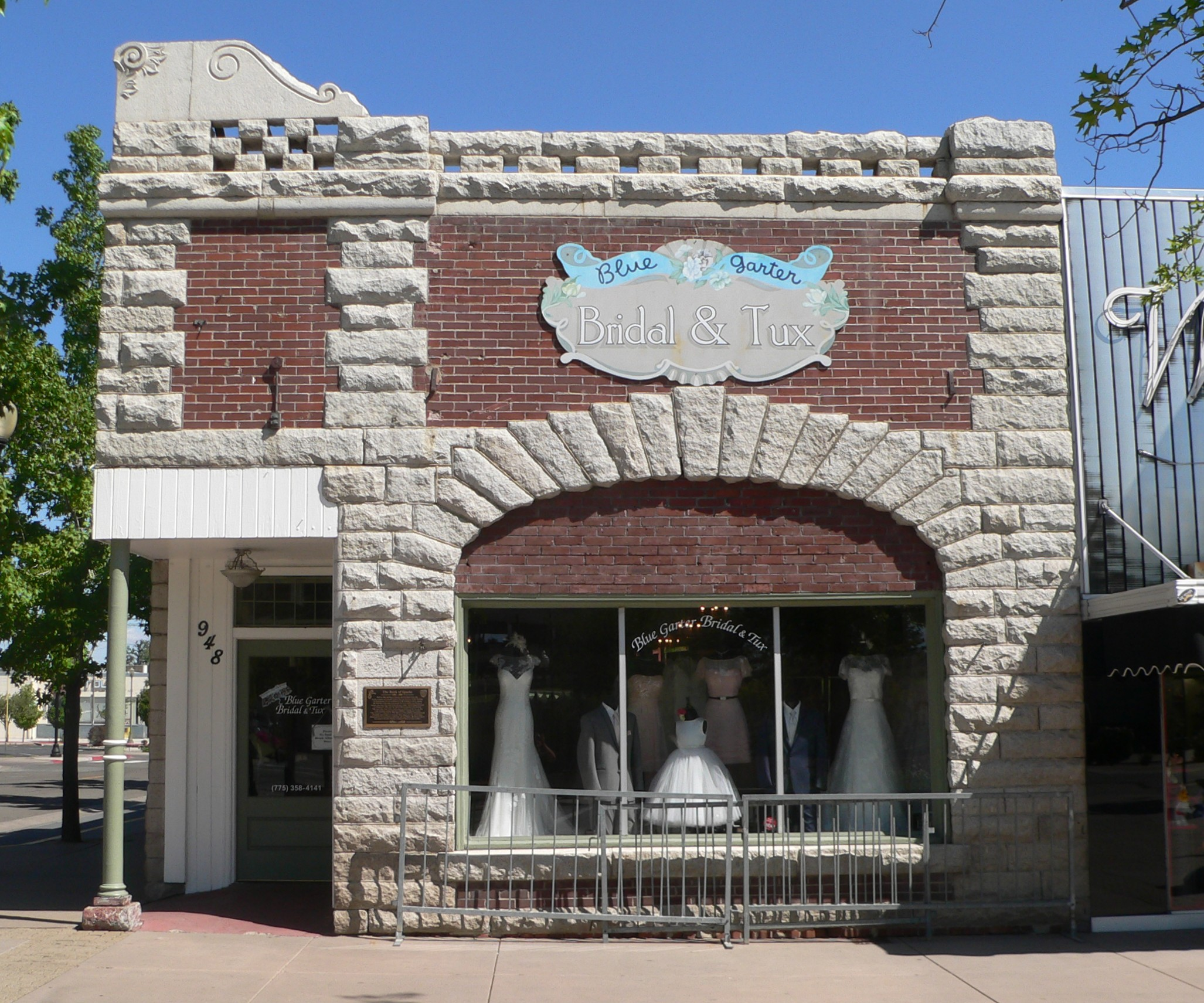 Bank of Sparks, located at 948 Victorian Avenue (northeast corner of Victorian and 10th Street) in Sparks, Nevada; seen from the south, from the Victorian side; 10th is out of frame to the left.